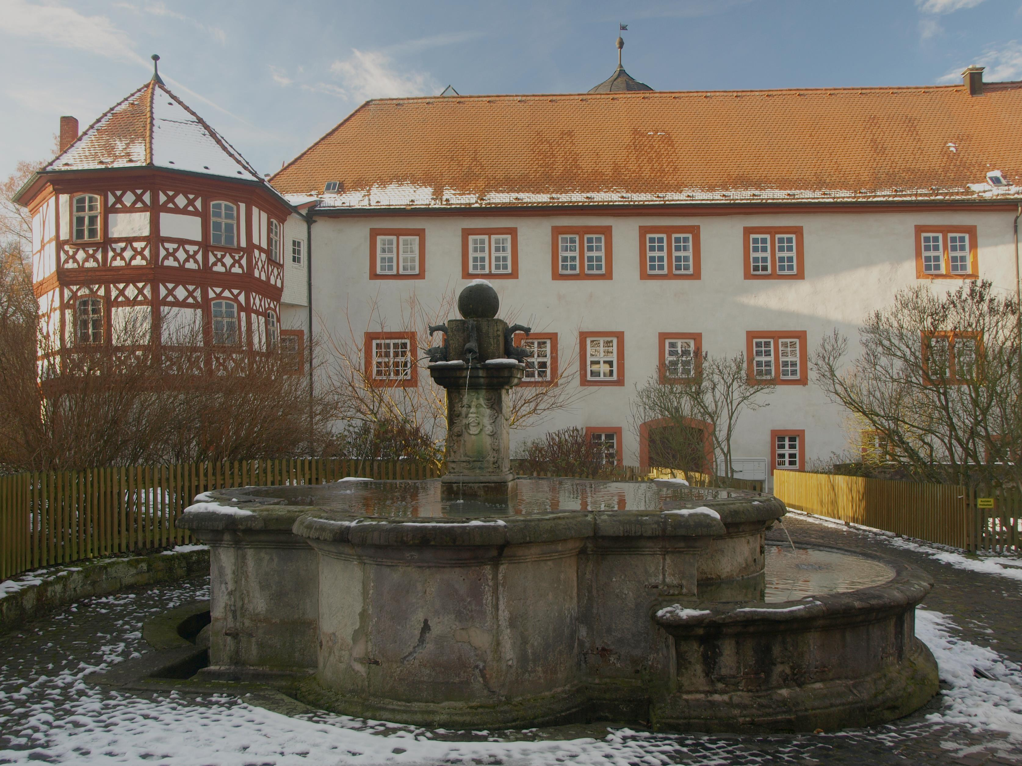 Palace fountain and in background the red castle (part of castle Tann) in town Tann (Rhön)